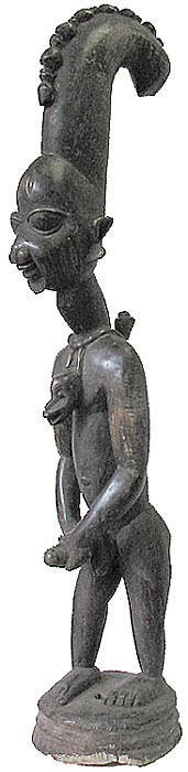 Statue of Eshu-Elegbara, the trickster god. Photograph of a statue from Oyo, SW Nigeria, c1920.